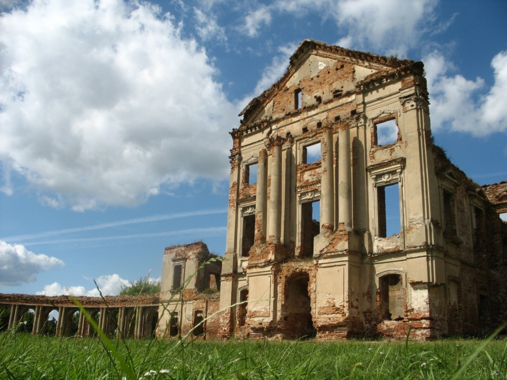 Palace of Sapieha (Ruzhany), Belarus